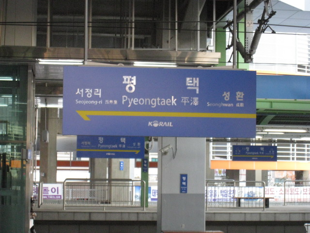 KORAIL Gyeongbu Line Pyeongtaek Station